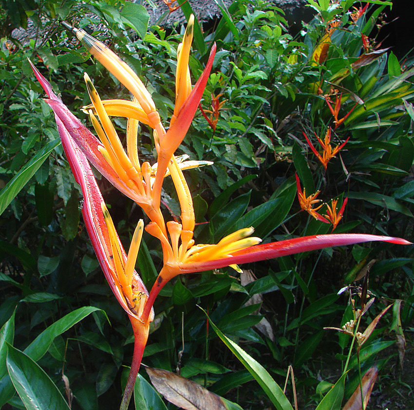 Widespread and widely planted in the Neotropics. Photo from the Colombian Amazon. In context at